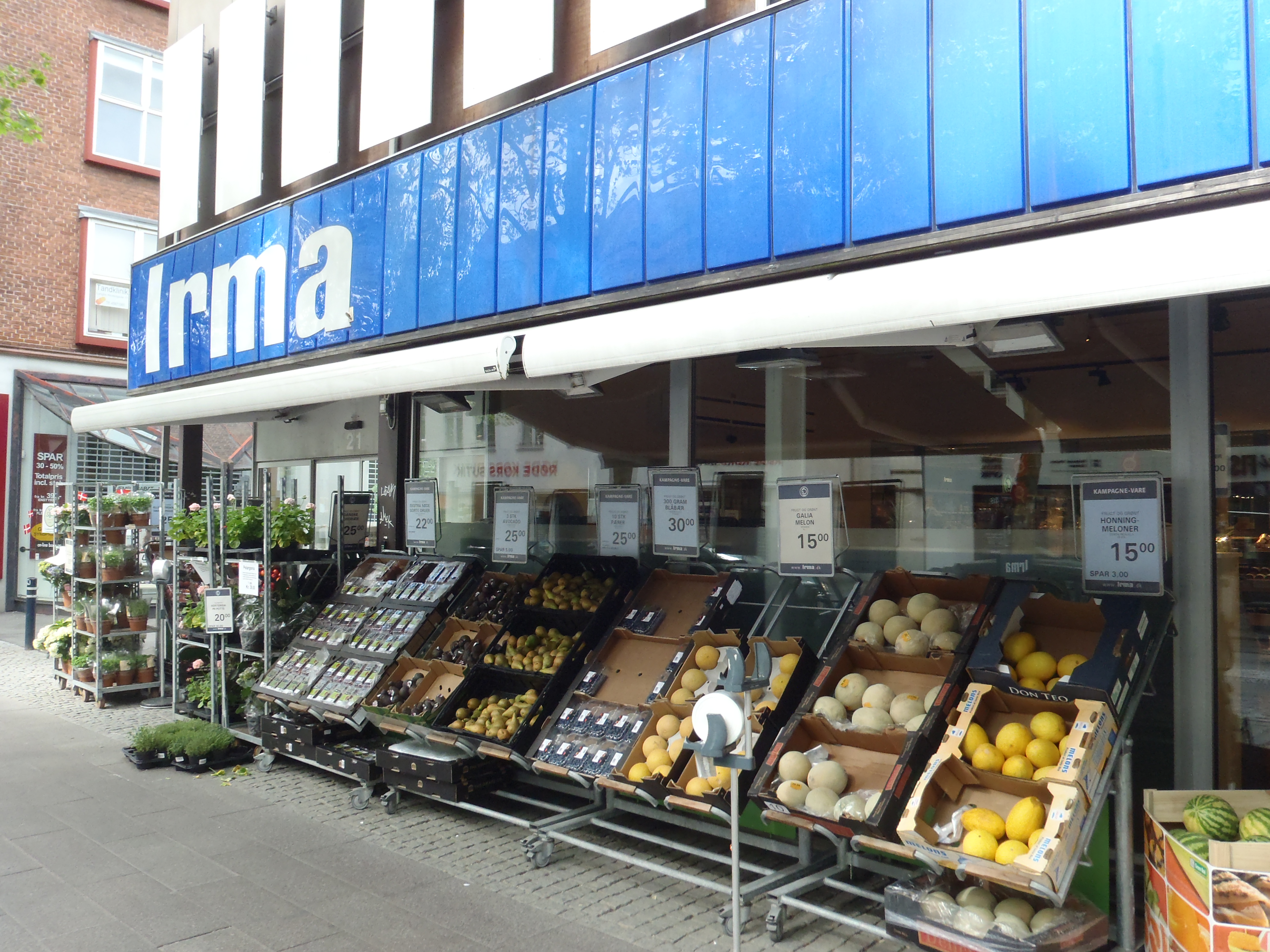 The store 'Irma' on Lyngby Hovedgade, Kongens Lyngby, Denmark, spring 2014Dansk: Butikken Irma på Lyngby Hovedgade, Kongens Lyngby, foråret 2014.